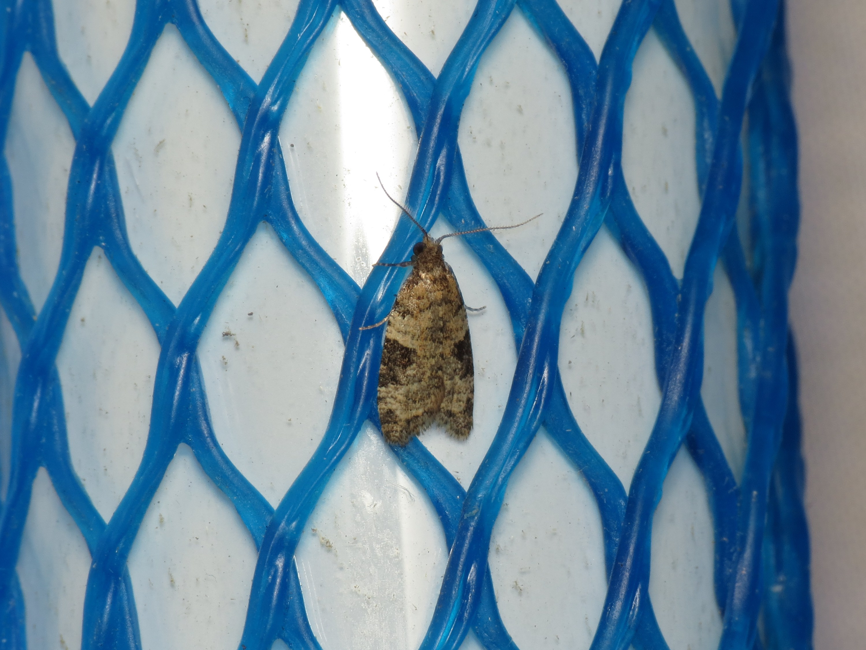 Anopina triangulana (Kearfott, 1908), to black light, Mangini Ranch, Concord, CA, 19 June 2013